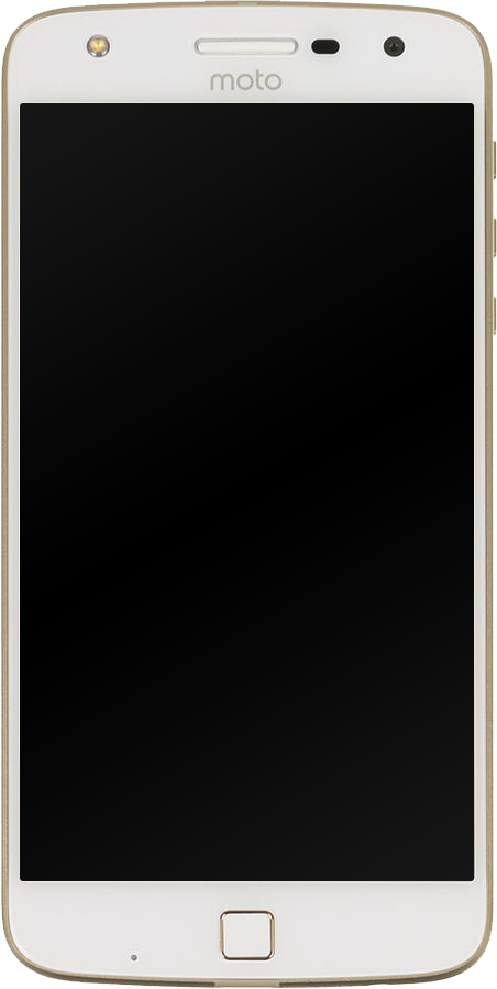 Render of Moto Z Play